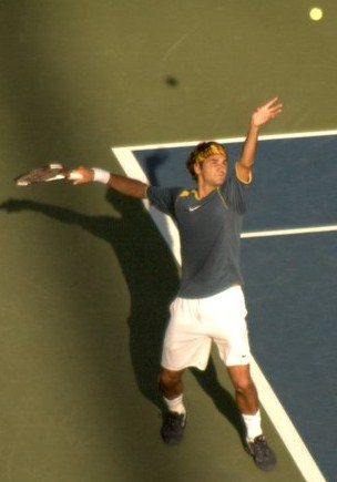 Roger Federer serving. Cropped to focus in of Federer instead of negative space!